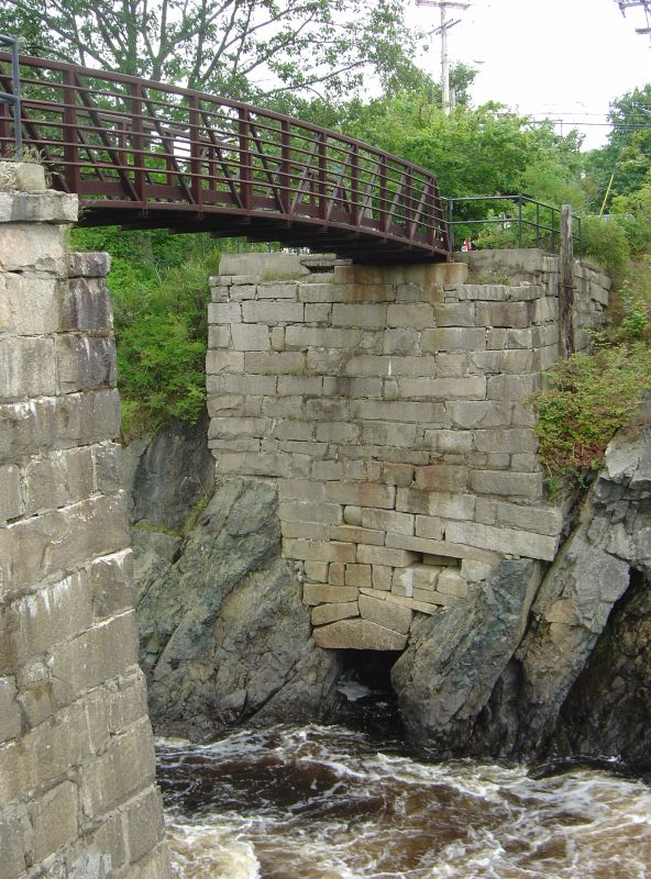 Bridge crossing Machias River in Machias, Maine, USA